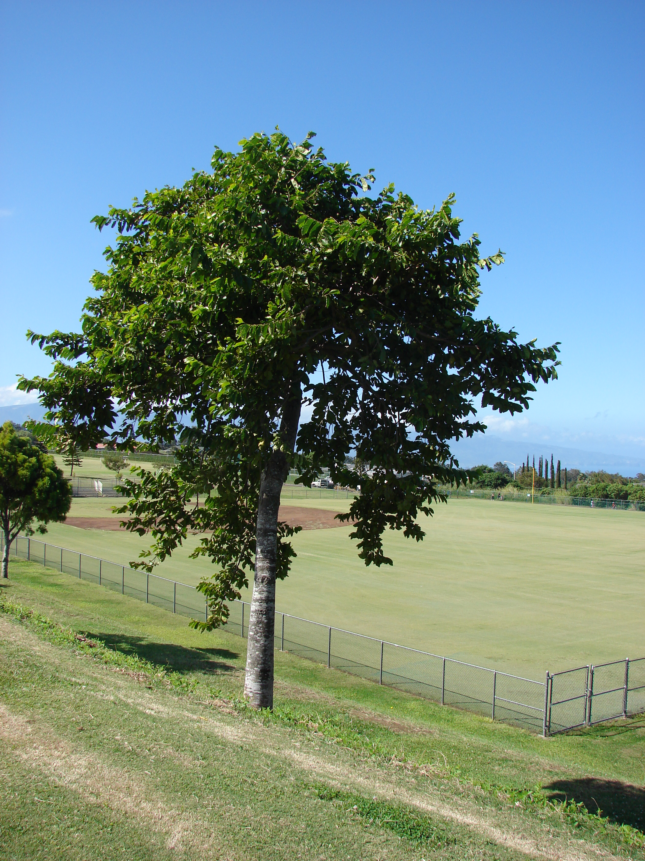 Cananga odorata (habit). Location: Maui, Eddie Tam Makawao